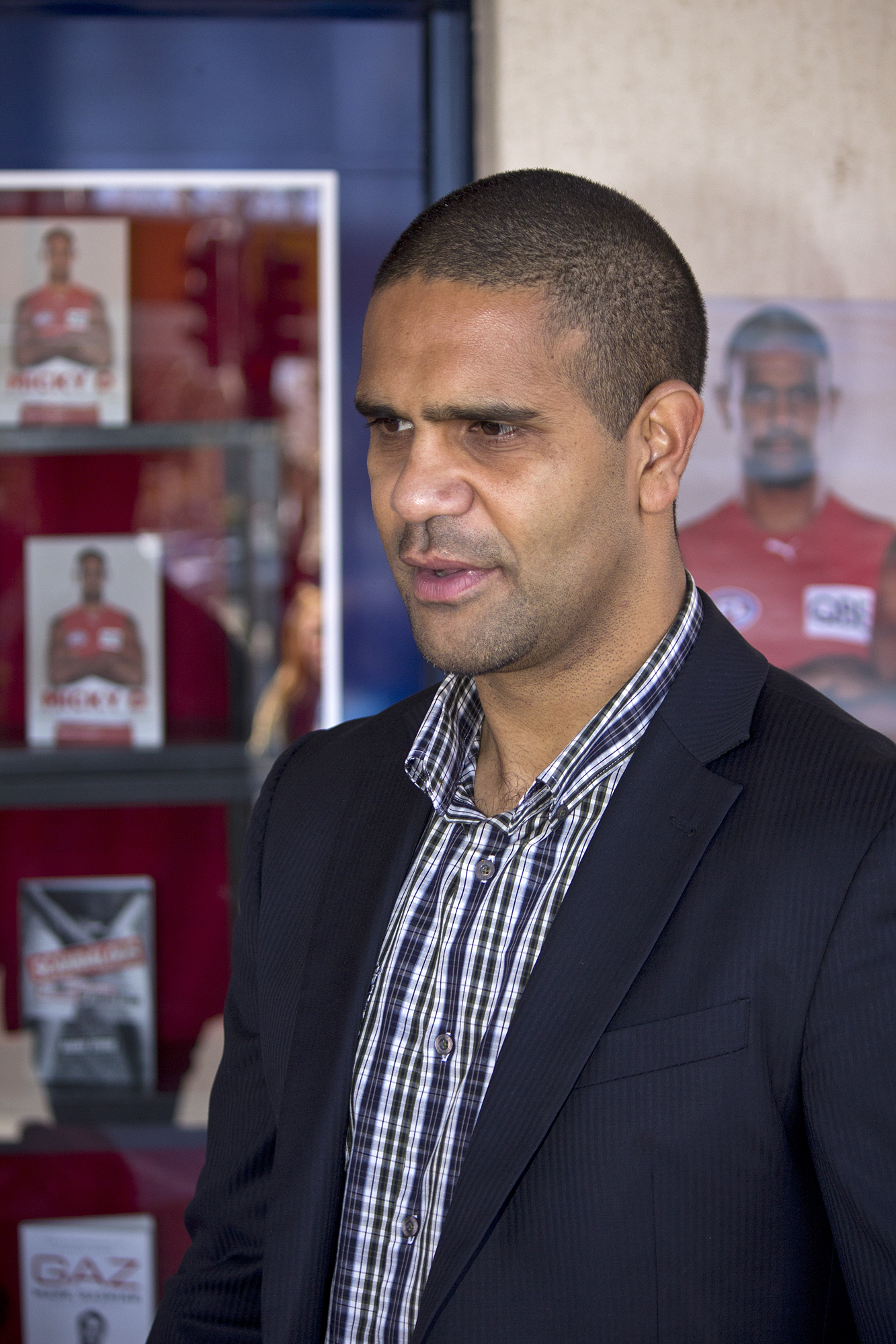 Michael O'Loughlin at Collins Booksellers for an autographing session in Wagga Wagga, New South Wales.